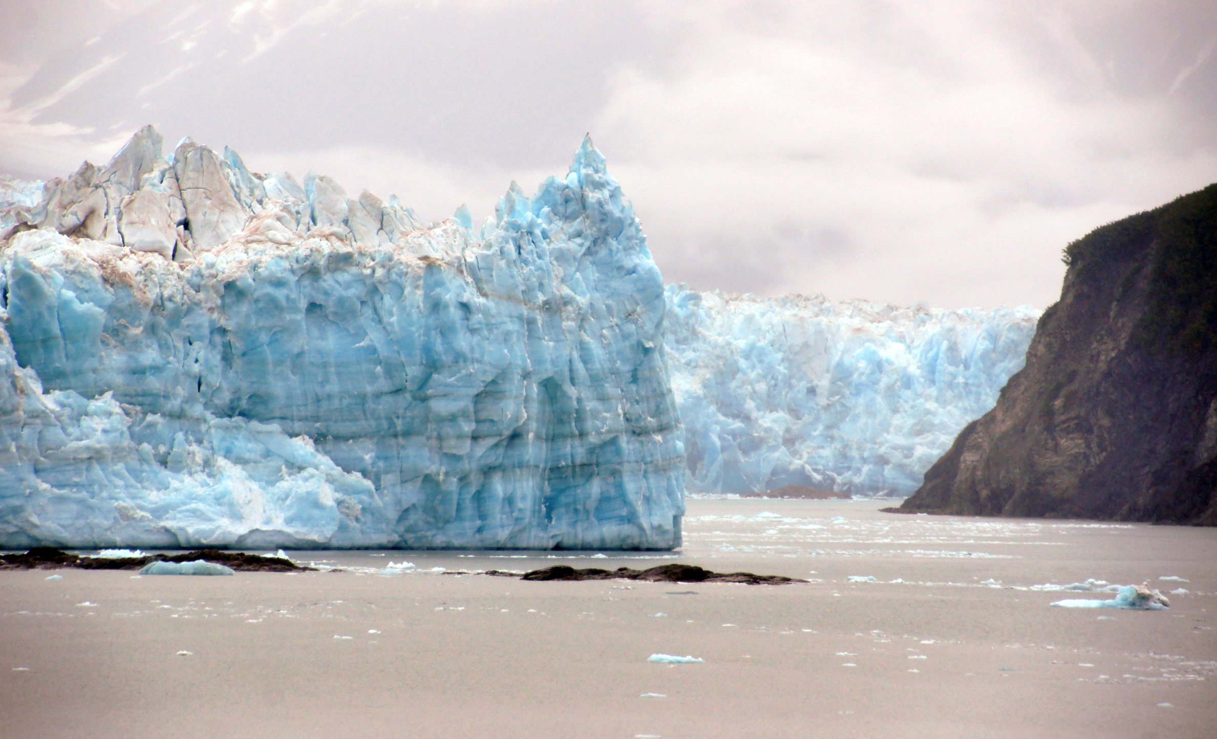 Hubbard Glacier is defying the global paradigm of valley or mountain glacier shrinkage and retreat in response to global climate warming. Hubbard Glacier is the largest of eight calving glaciers in Alaska that are currently increasing in total mass and advancing. All of these glaciers calve into the sea, are at the heads of long fiords, have undergone retreats during the last 1,000 years, calve over relatively shallow submarine moraines, and have unusually small ablation areas compared to their accumulation areas.